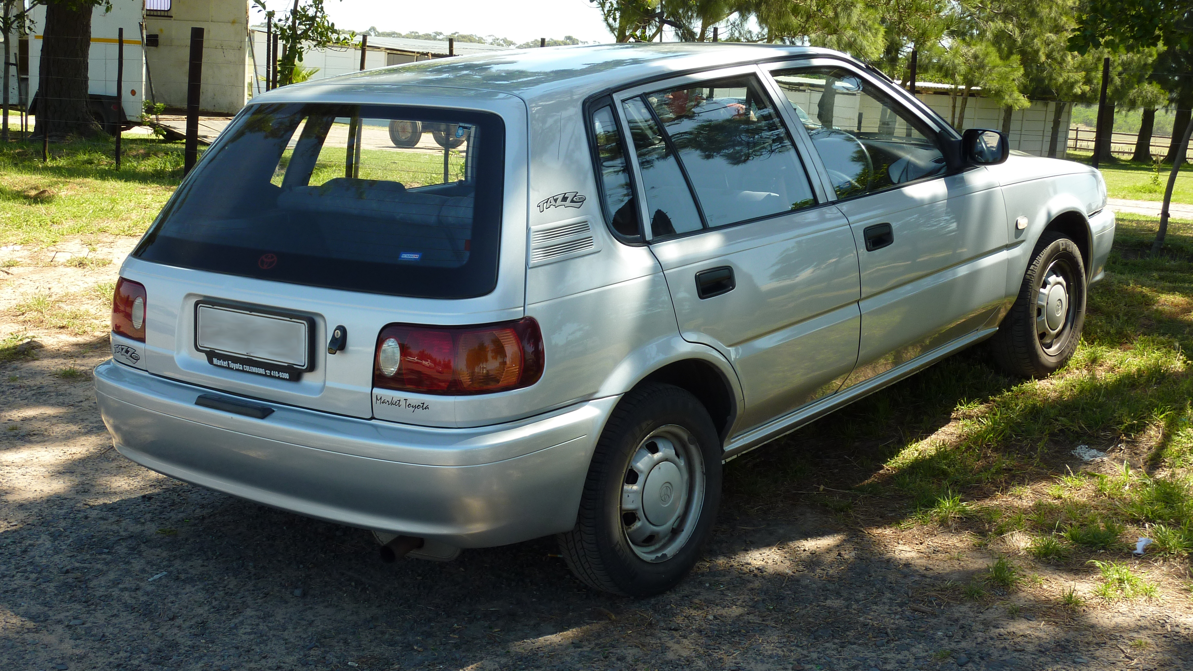 Toyota Tazz Facelift Rear